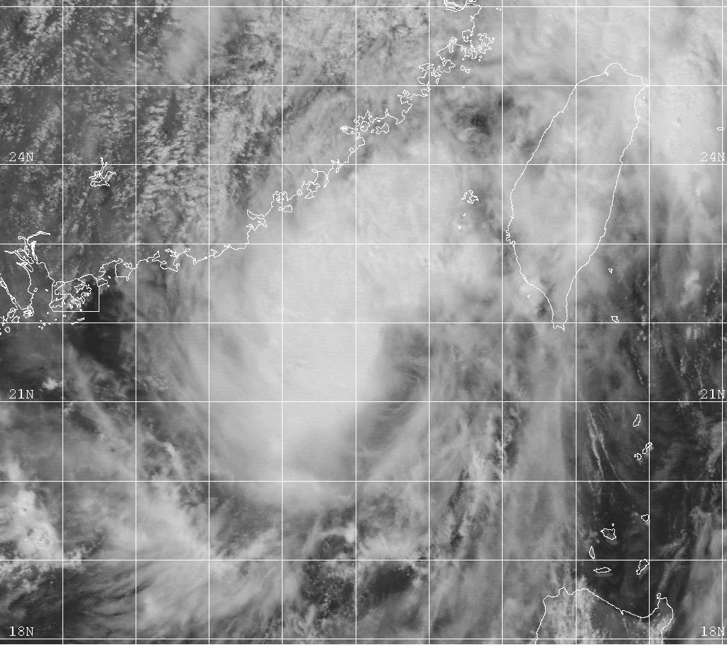 Visible image from GMS-5 of Tropical Storm Wendy on 1999-09-03. At the time Wendy had its peak winds of 40 knots and was between Hong Kong and Taiwan.